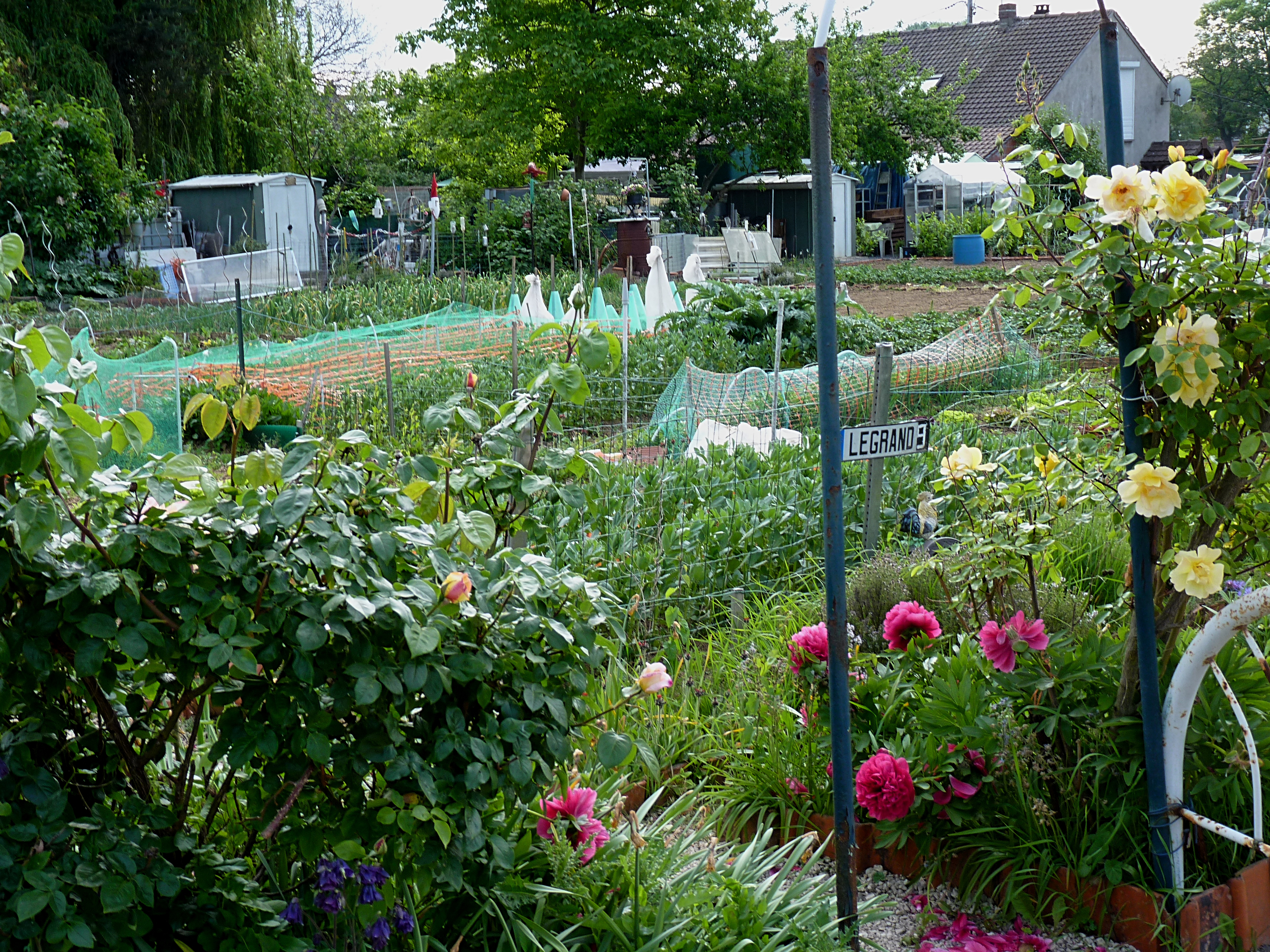 Allotments in Wattrelos (Nord), France.